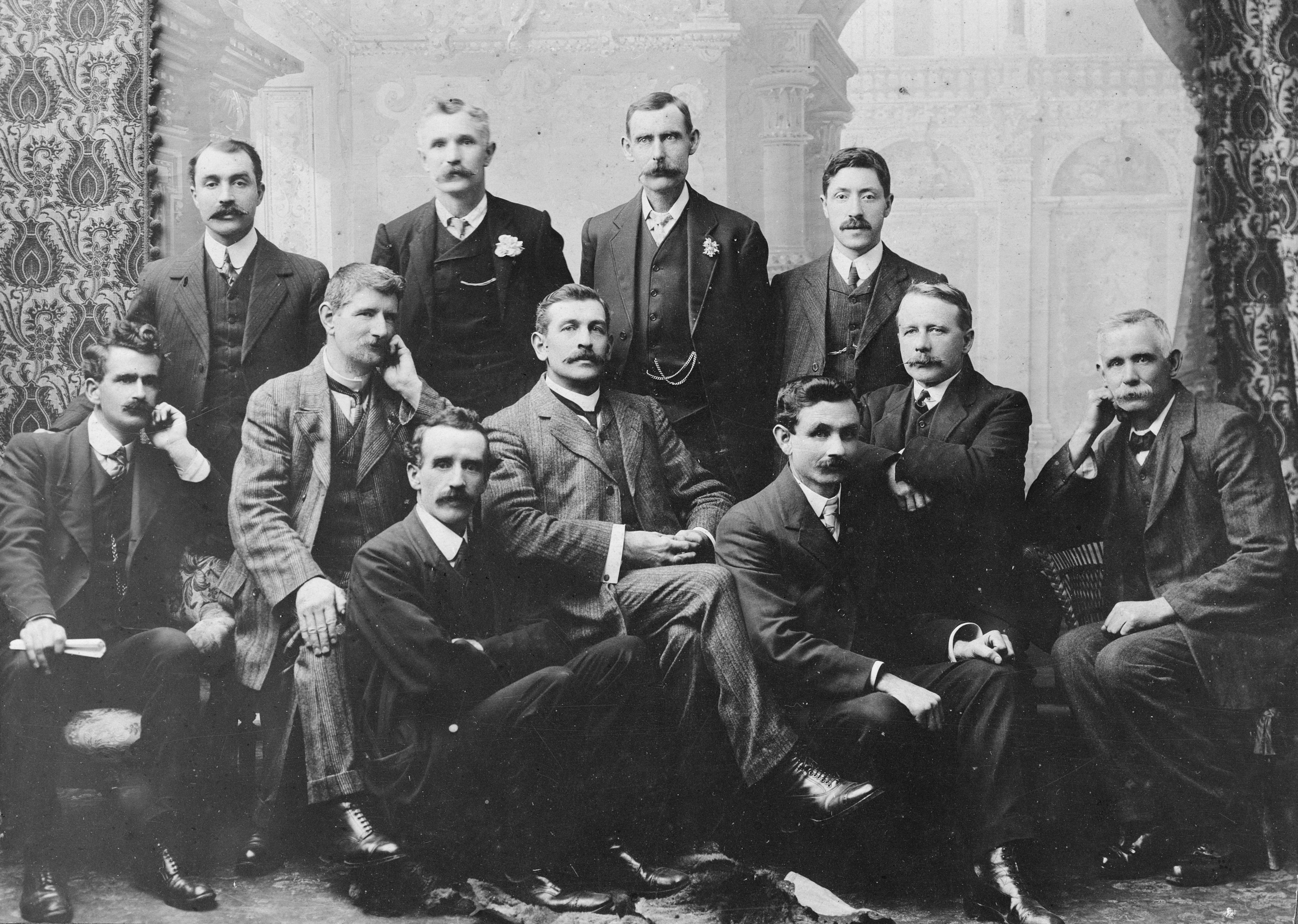 Delegates to the fourth annual conference of the New Zealand Socialist Party, held in Dunedin in 1911. Back row (from left): A Varella (Auckland), C Munnie (Wellington), T A Eagle (Huntly), Mark W. Silverstone (Feilding). Middle row (from left): G G Farland (Wellington), Robert Hogg (Gen Sec, Wellington), James Wright Munro (Pres, Dunedin), Frederick Cooke (Christchurch), W Pattison (Dunedin). Front row (from left): G Haig (Dunedin), Michael Joseph Savage (Auckland).